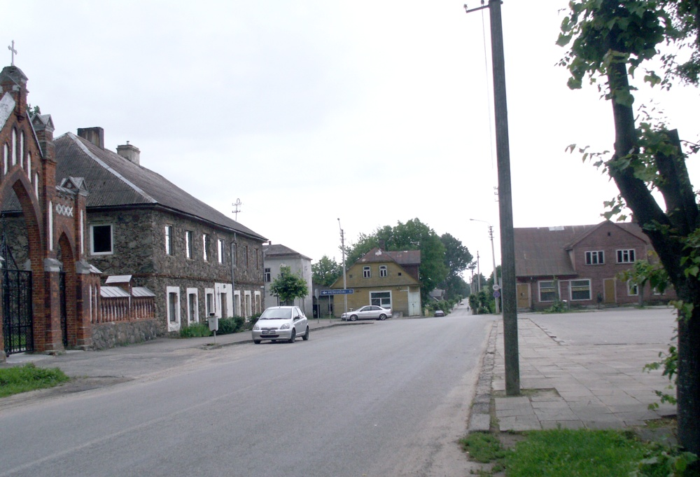 Gruzdžiai – city in Lithuania